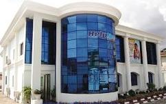 Corporate headquarters of Helpline Telecoms - Ibadan, Nigeria